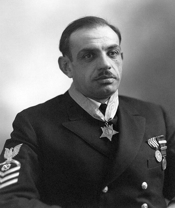 Photograph of Chief Boatswain's Mate Orson Leon Crandall, USN, on 19 January 1940, just after being presented with the Medal of Honor for heroism during rescue and salvage operations on USS Squalus (SS-192), following her accidental sinking on 23 May 1939.